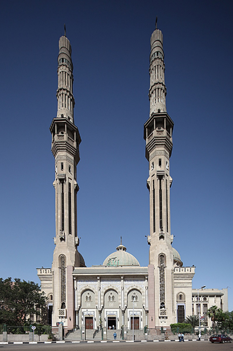 Façade of the el-Nour Mosque, el-'Abbasiya, Cairo, Egypt